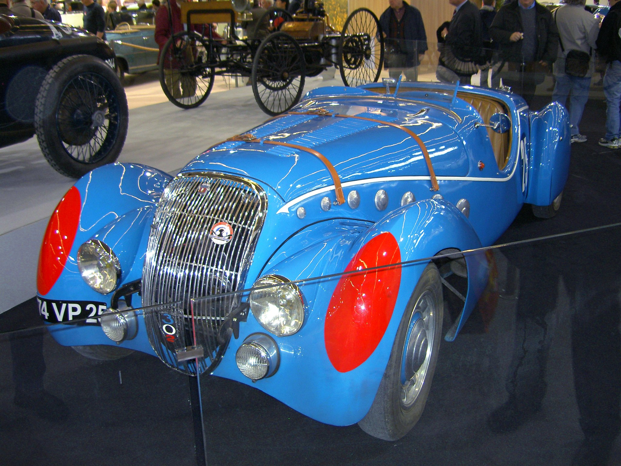 Peugeot 302 Darl'mat (French race car for the "24 Heures du Mans", 1937), 73ch DIN.